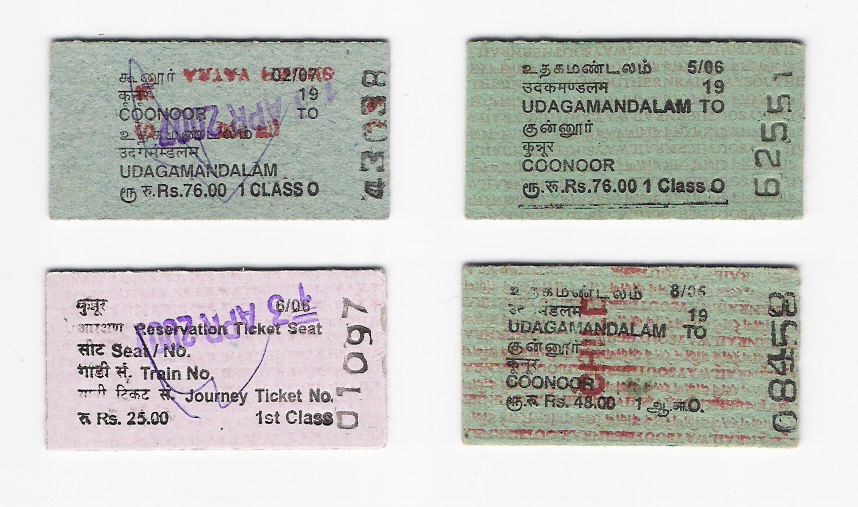 Nilgiris Mountain Railway tickets